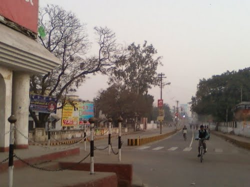 Thana Chowk